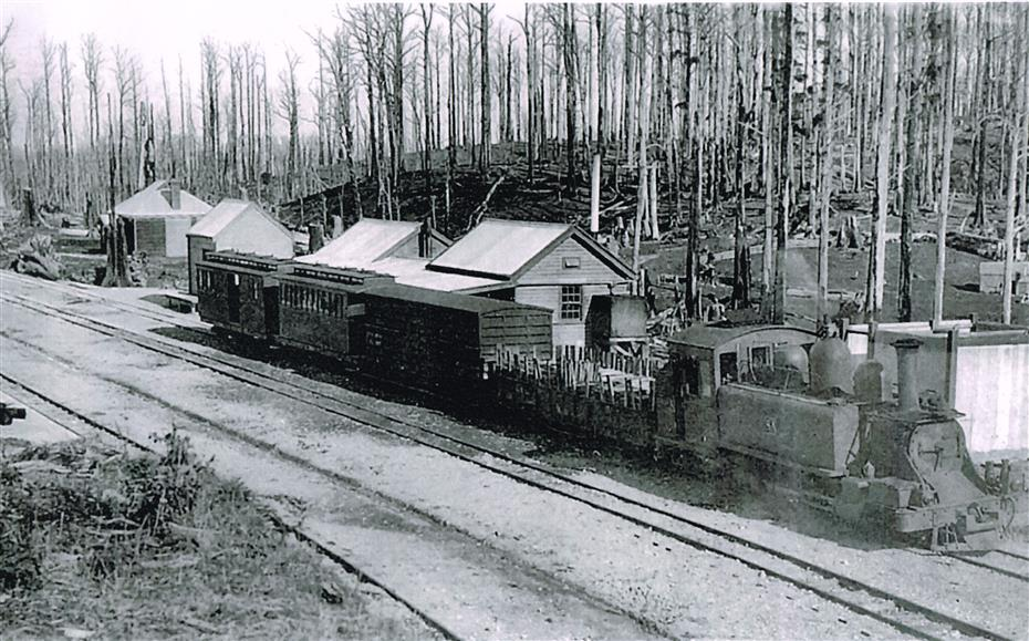 Crowes Station soon after opening in 1912 with Locomotive 8A about to depart for Beech Forest and Colac.